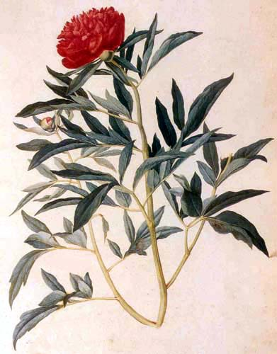 Paeonia officinalis